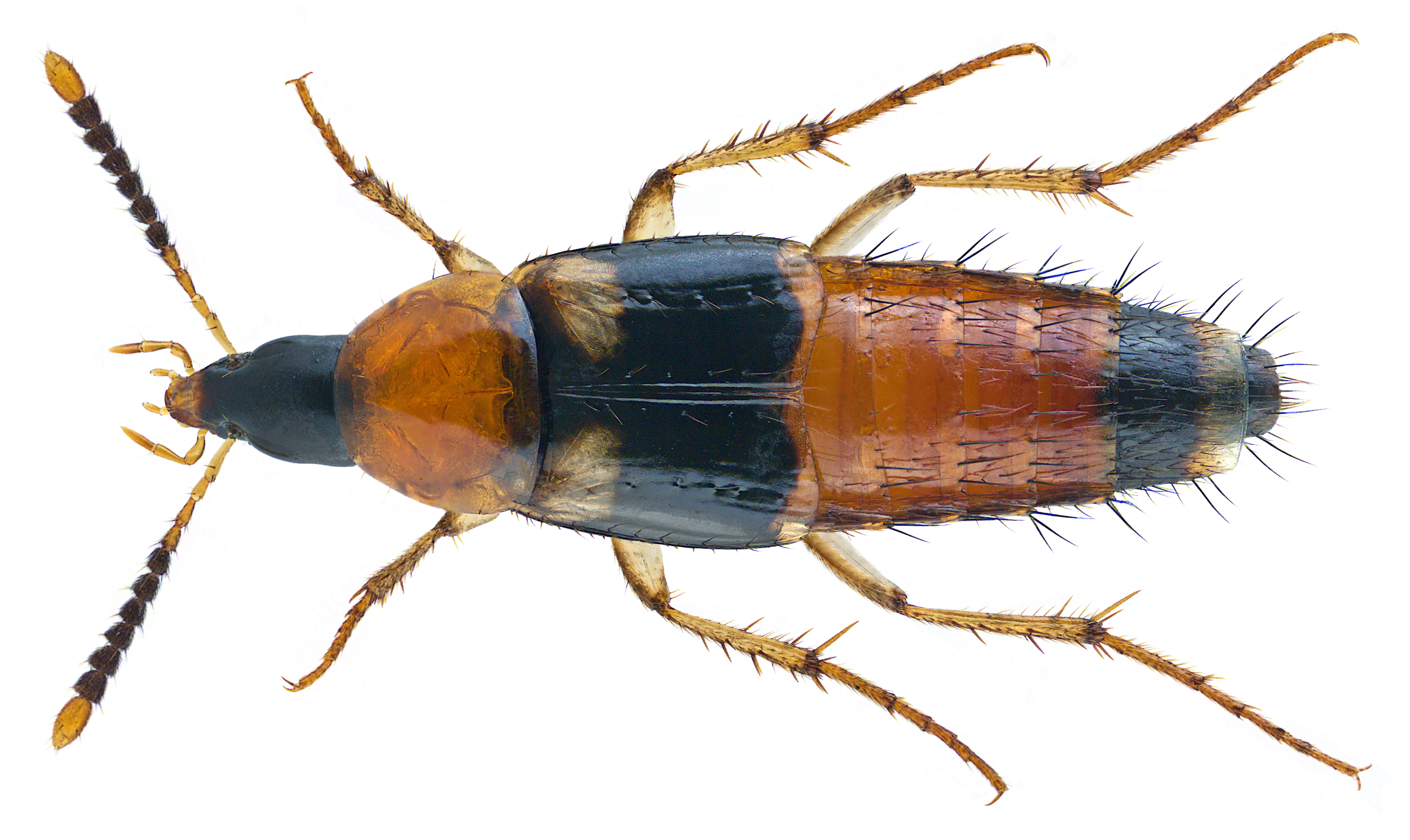 Family: Staphylinidae Size: 5.8 mm (5.0 to 7.0 mm) Origin: West Europe to Baikal region Ecology: can be found mainly in mushrooms Location: Germany, Bavaria, Upper Franconia, Selbitz, Foehrig leg. J. Wutz, 25.IX.2016; det. U.Schmidt, 2016 Photo: U.Schmidt, 2016